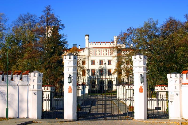 Stara Wies Palace in Poland